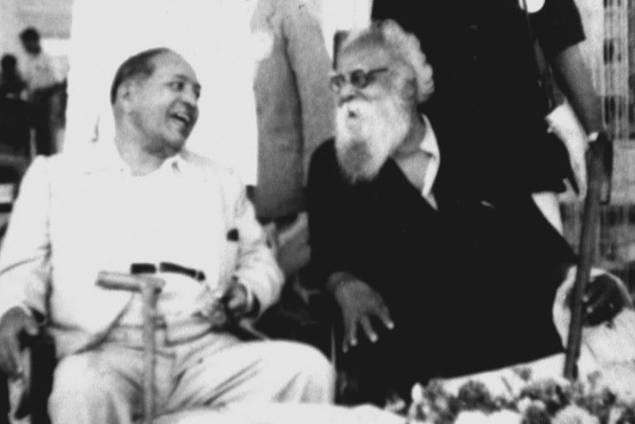 Dr. Ambedkar laughing with Periyar at Rangoon, Myanmar